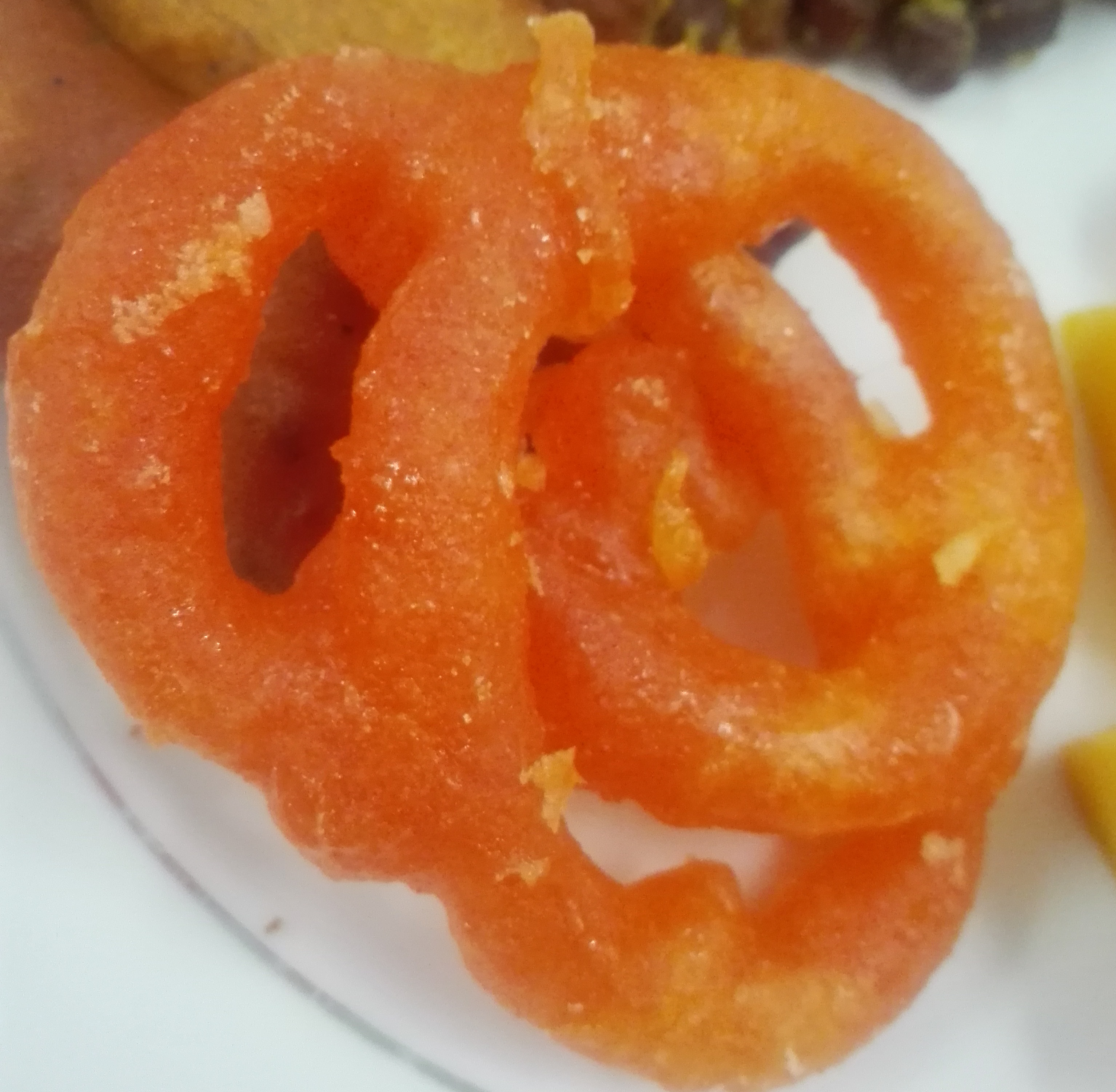 Jilapi is pronounced in Bangladesh which is a common food items of Asia known with different pronounciation.